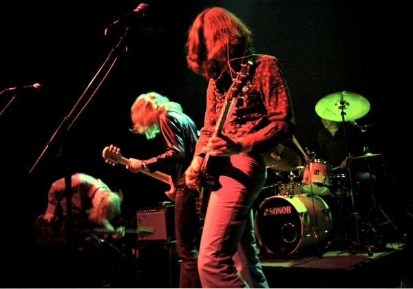 Plan Nine performing at the Norwich Arts Centre 2007